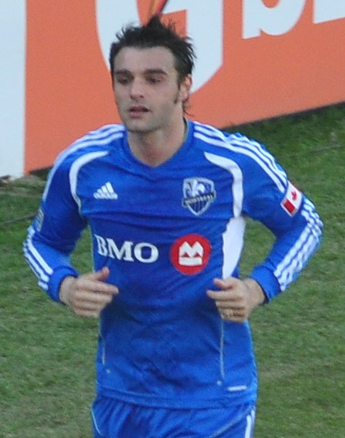 Andrea Pisanu playing for Montreal Impact.